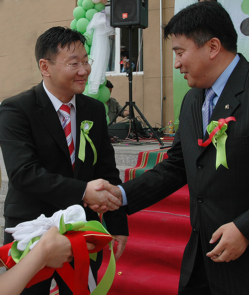 Монгол: Unitel launches its service in 2016.